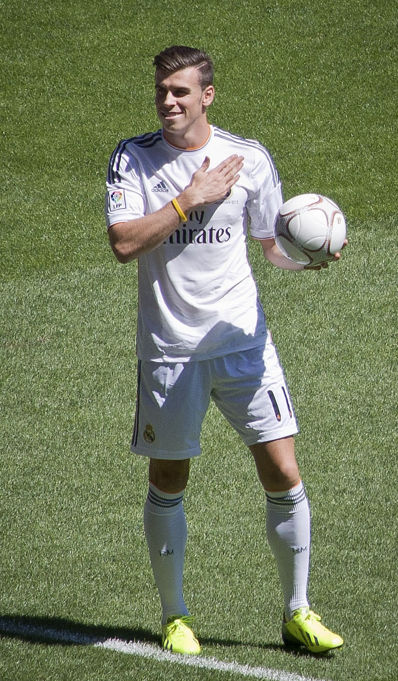 Gareth Bale during his presentation as a new Real Madrid player